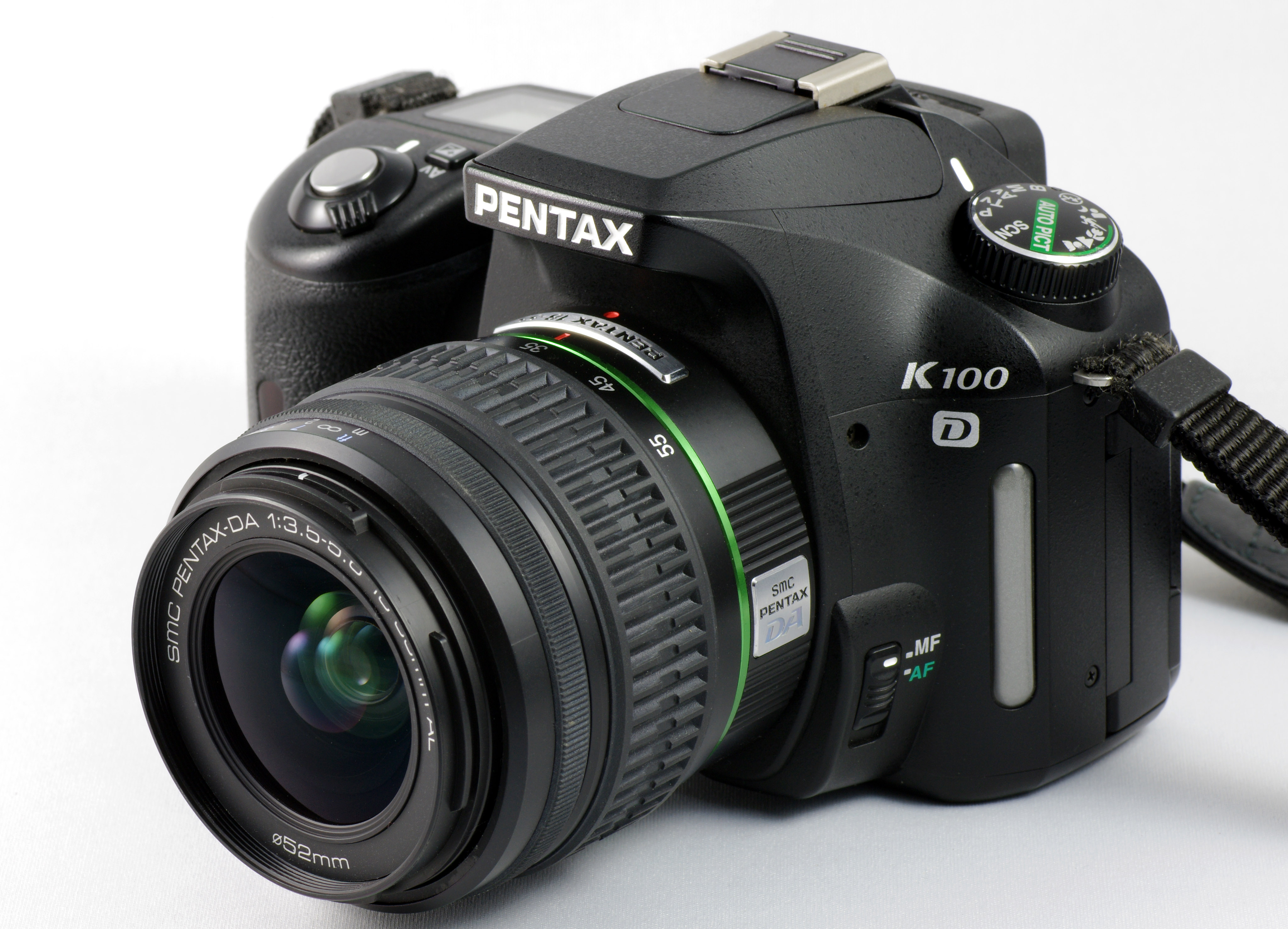 The digital reflex camera Pentax K100D with the kit zoom Pentax smc DA 18-55 mm / 3.5~5.6 AL.